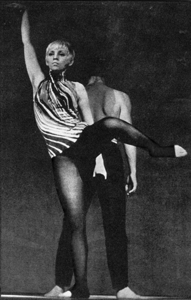 Krystyna Mazurówna, Polish dancer and choreographer